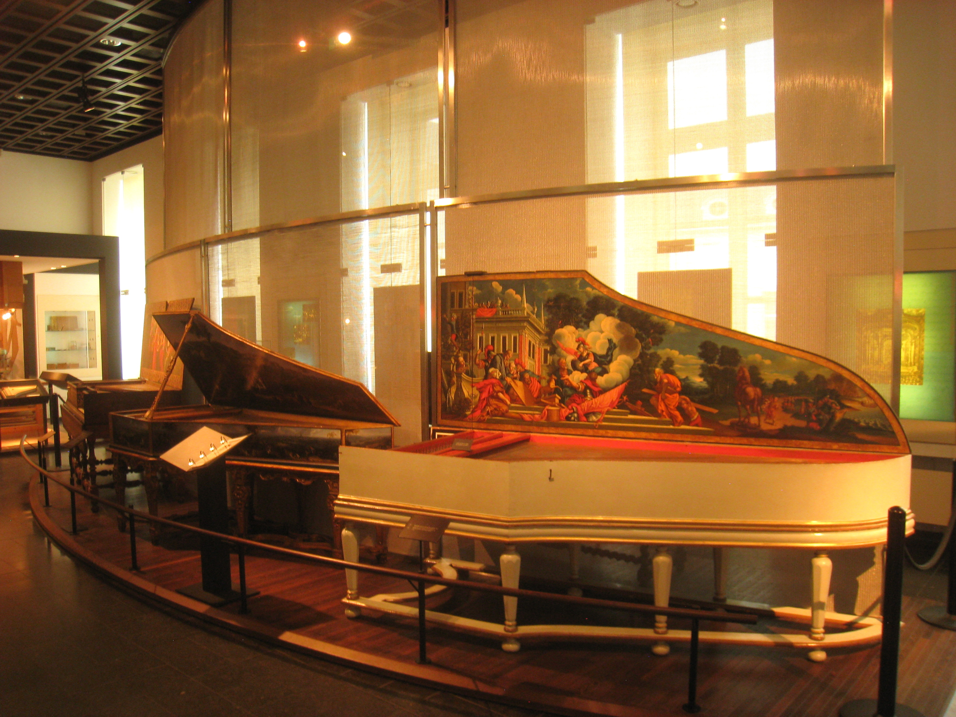 Keyboard instrument in the Musical Instrument Museum, Brussels, Belgium. Various keyboard instruments.